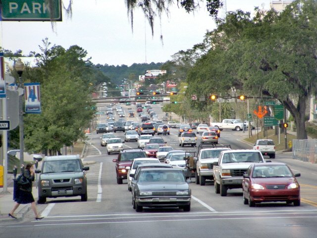 Tallahassee traffic as seen on North Monroe Street looking north from the Downtown Chain of Parks.